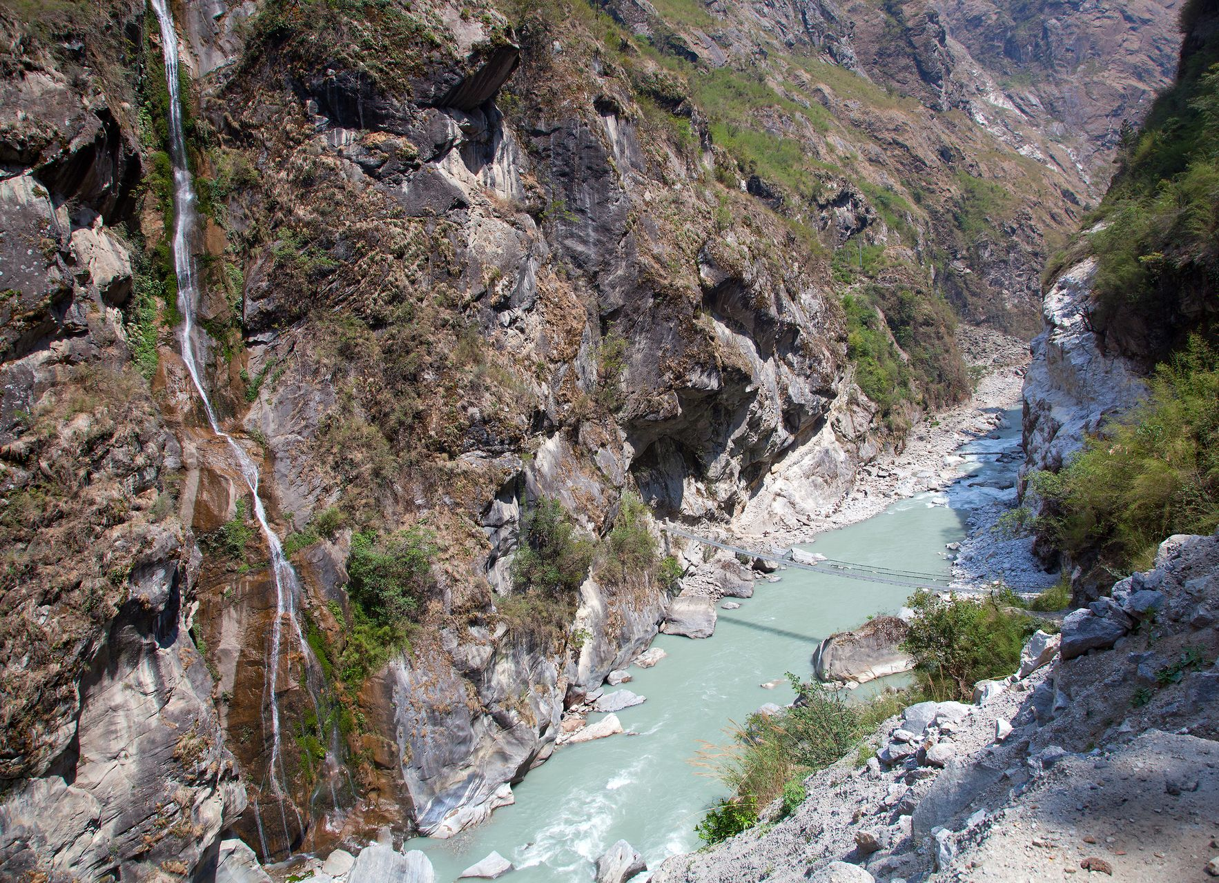 The Marsyangdi River, Nepal